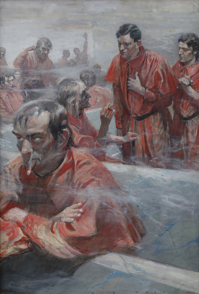 Original illustration by Hermann C. Wall (b. 1875, Stettin, Germany, d. 1919, Wilmington, Delaware, USA) for "The Scarlet Empire" by David MacLean Parry, published March 1906 (Indianapolis, IN: The Bobbs-Merrill Co.), -- painting: oil on masonite, 24" x 16-13/16" in private collection -- reproduced and published in two colors on p. 140, caption: "With a smirk and a bow I greeted the old witch"